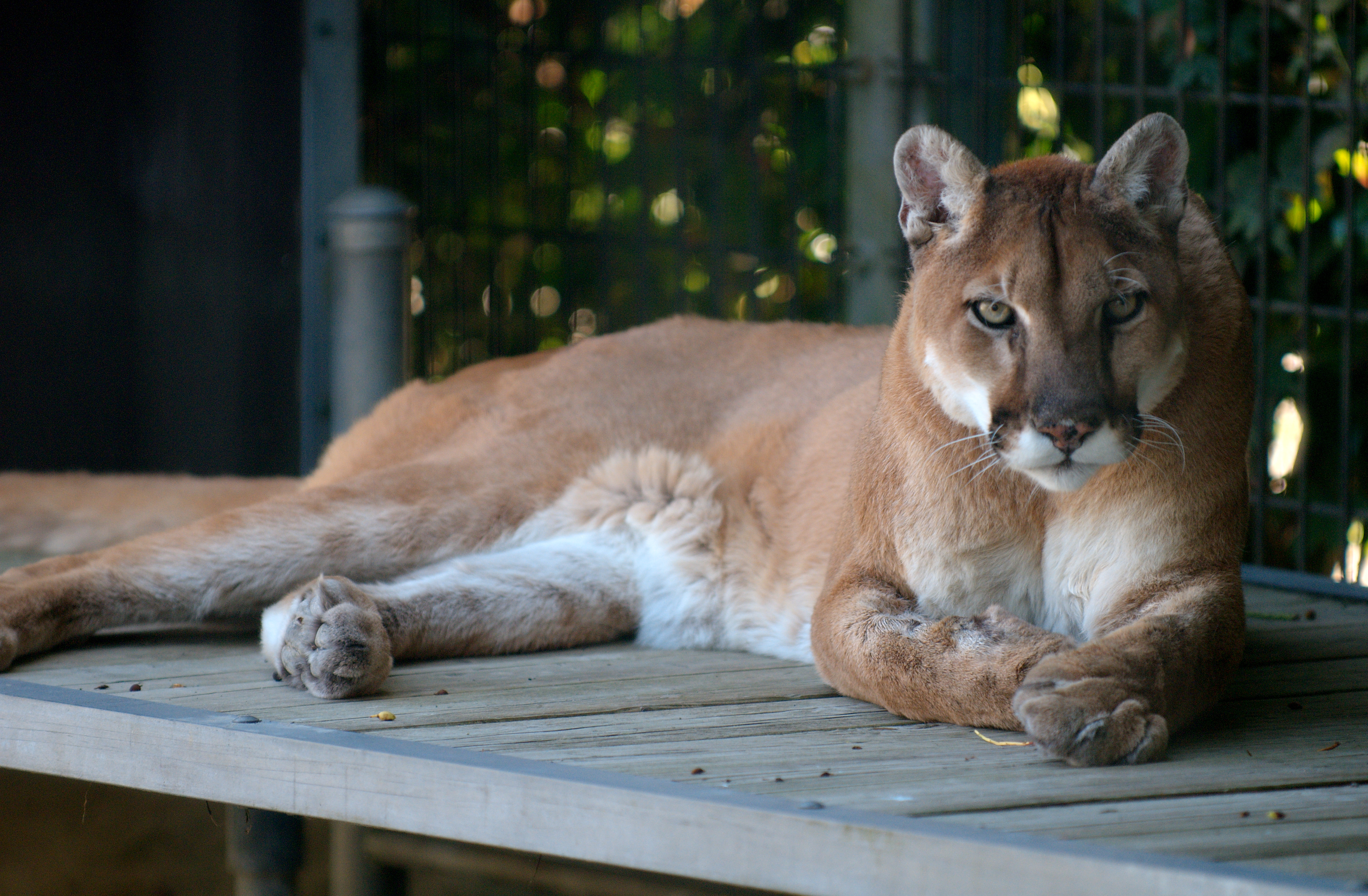 A cougar at Cougar Mountain Zoo.